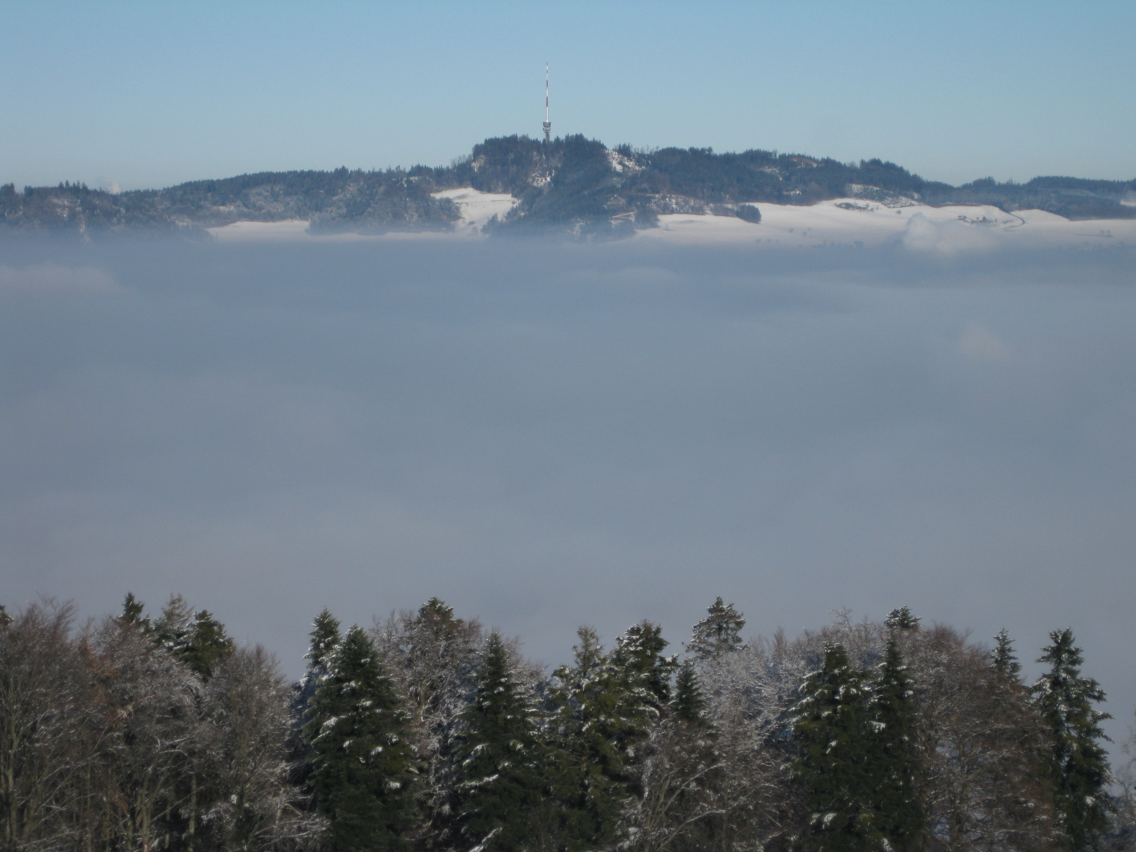 View on Bantiger, from Gurten mountain, near Berne, the Swiss capital